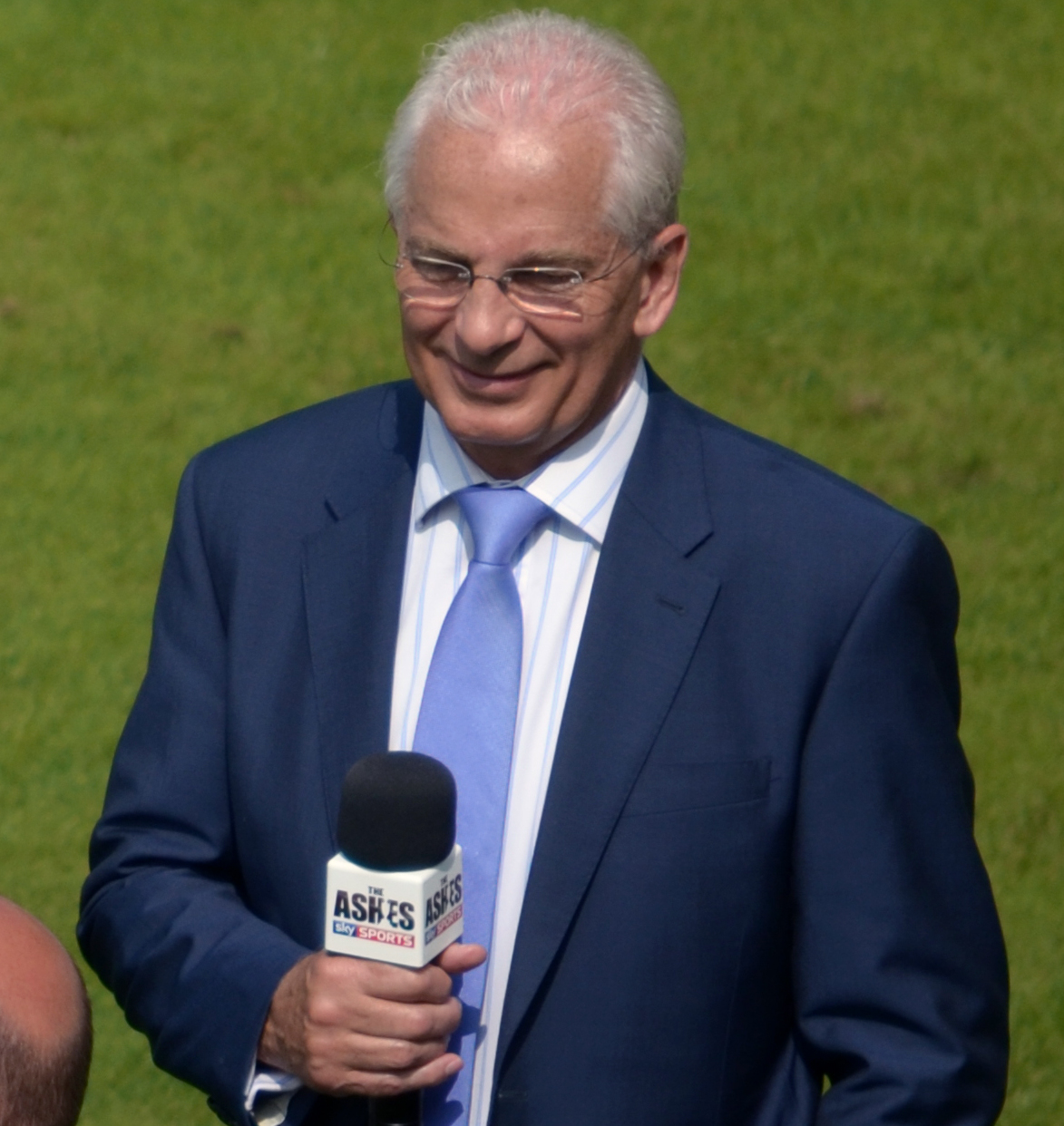 Ian Botham, David Lloyd and David Gower in front of the camera for Sky TV at Trent Bridge prior to the 3rd day of the 1st Test of the 2013 England v Australia Ashes series.